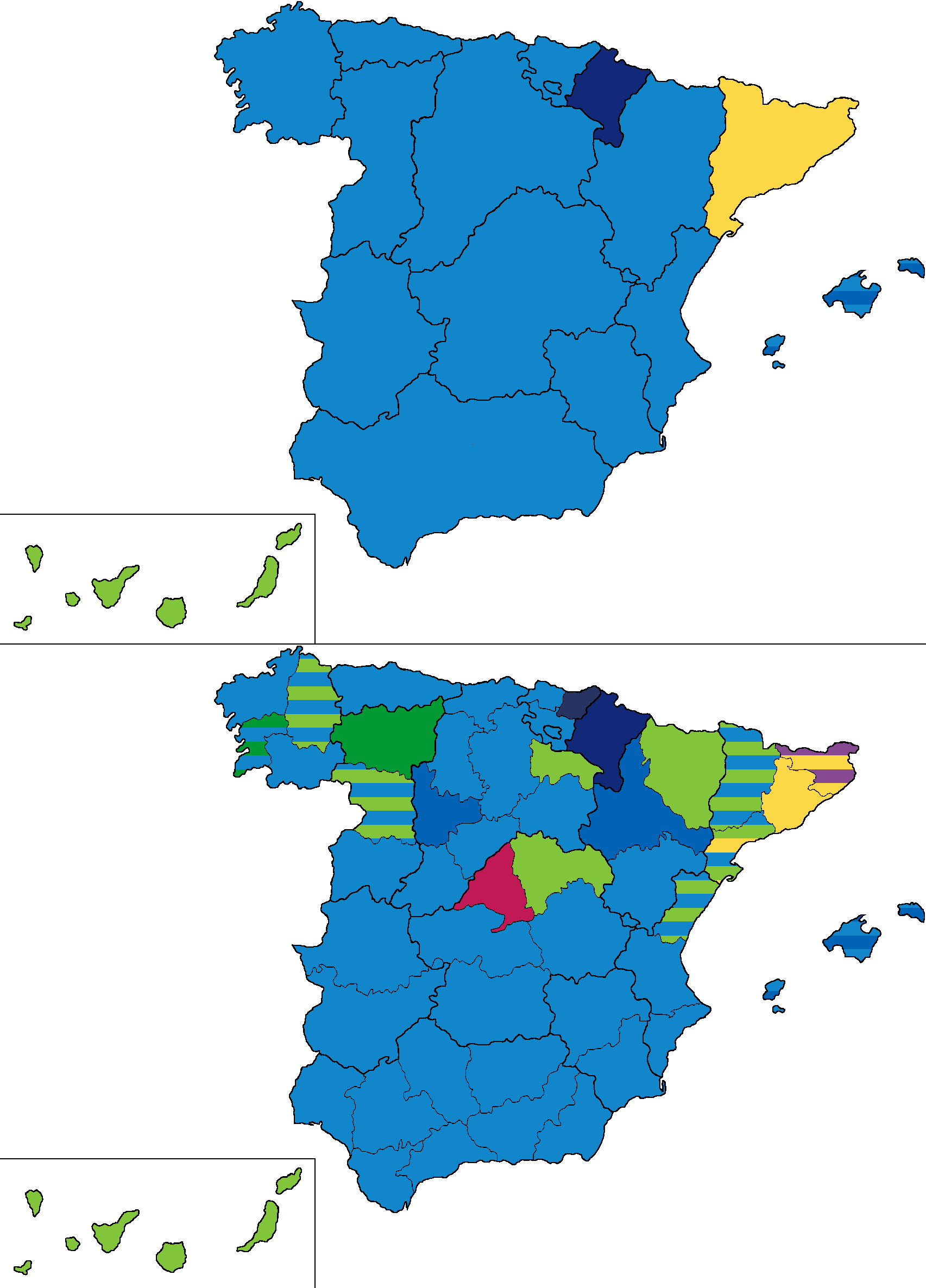 Most voted party in the 1914 Spanish Congress of Deputies election by regions and provinces.